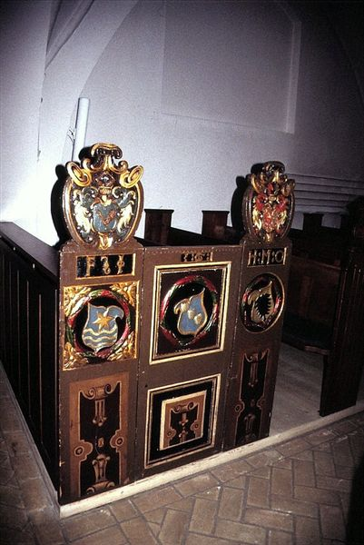 Haslev Kirke (church) in Faxe Kommune